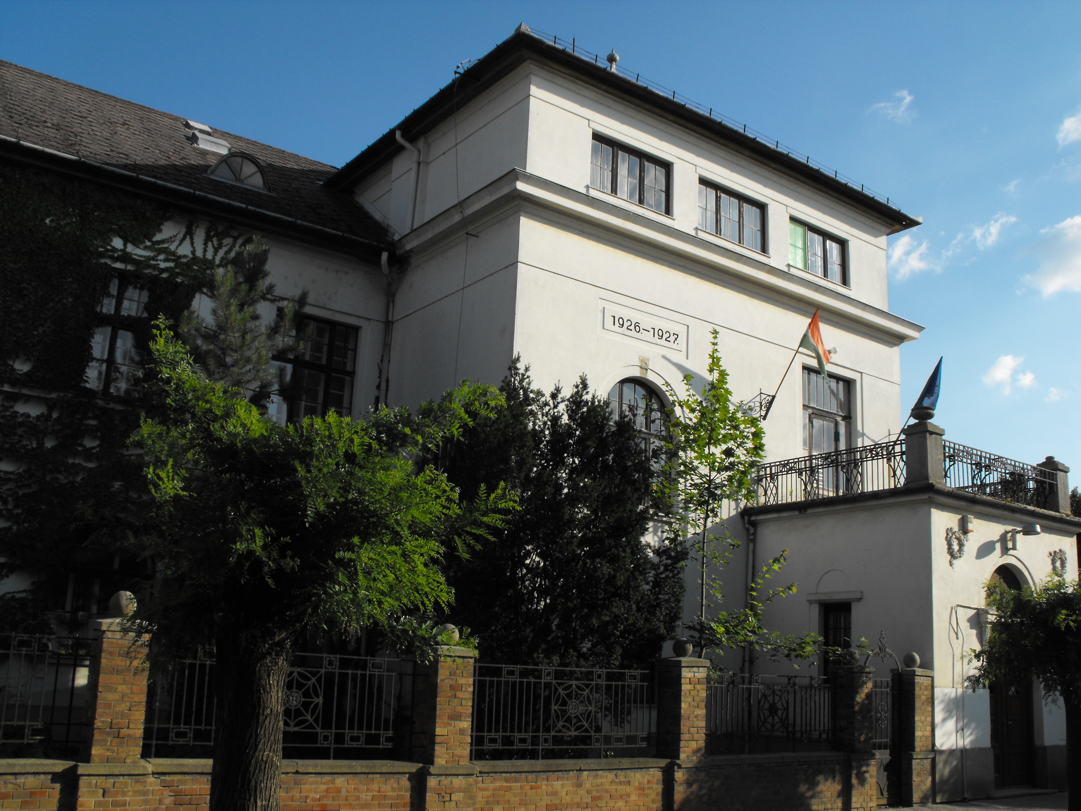 The Old Building of the Kálvin Square Elementary School, built in 1927, in Makó, Hungary.